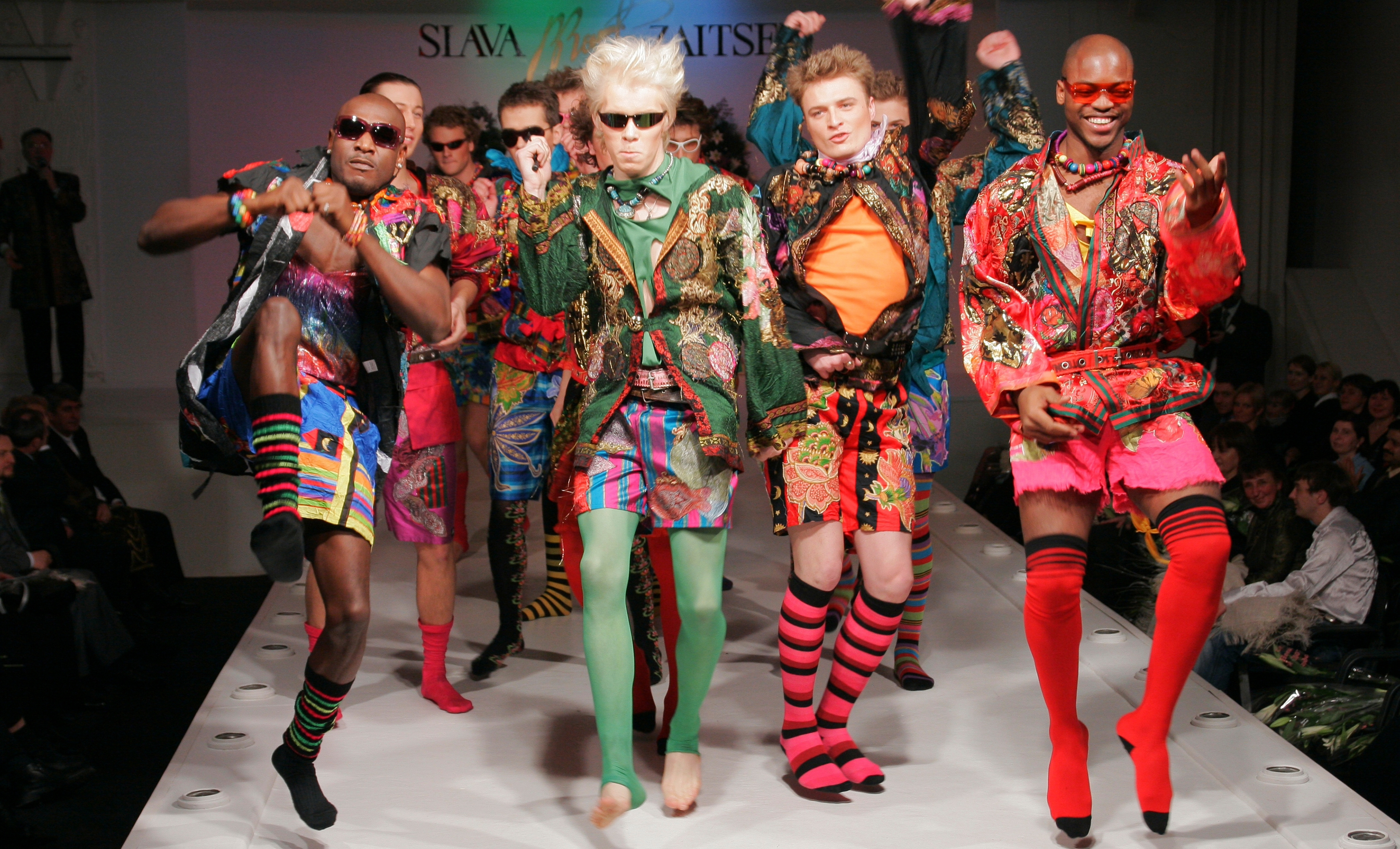 Slava Zaitsev fashion show